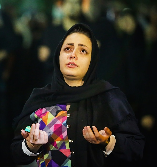 Laylat al-Qadr, 21st of Ramadan 1438 AH, Golestan Shohada, Isfahan. see full gallery